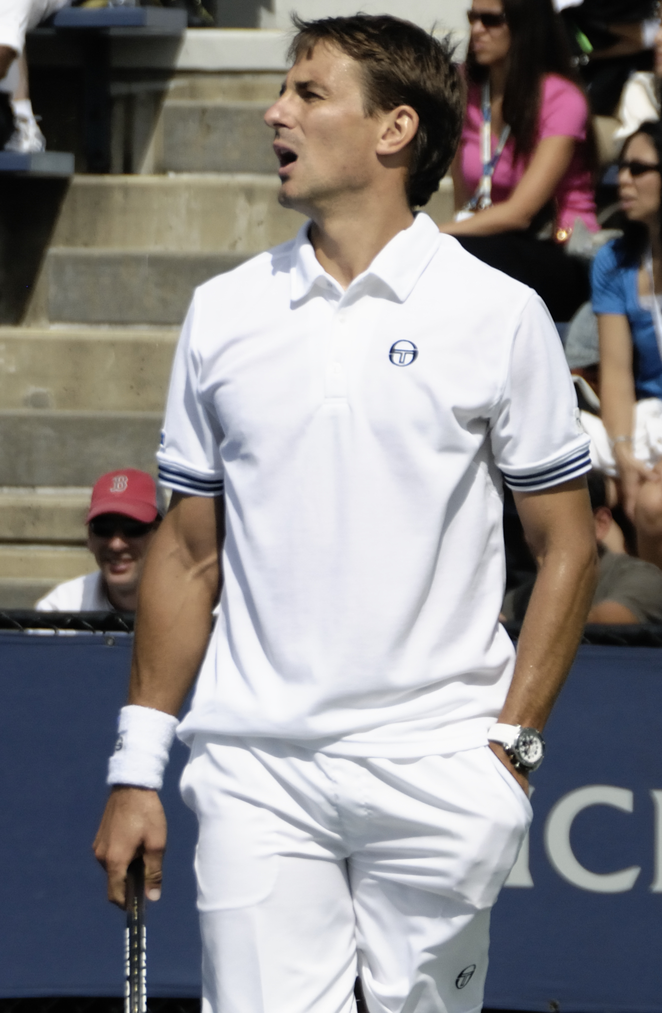 Tommy Robredo at the 2009 US Open